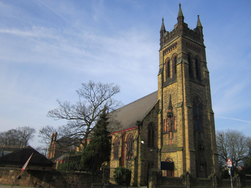 Roman Catholic church of St Charles' Borromeo, Aigburth Road, Liverpool, England, seen from the east